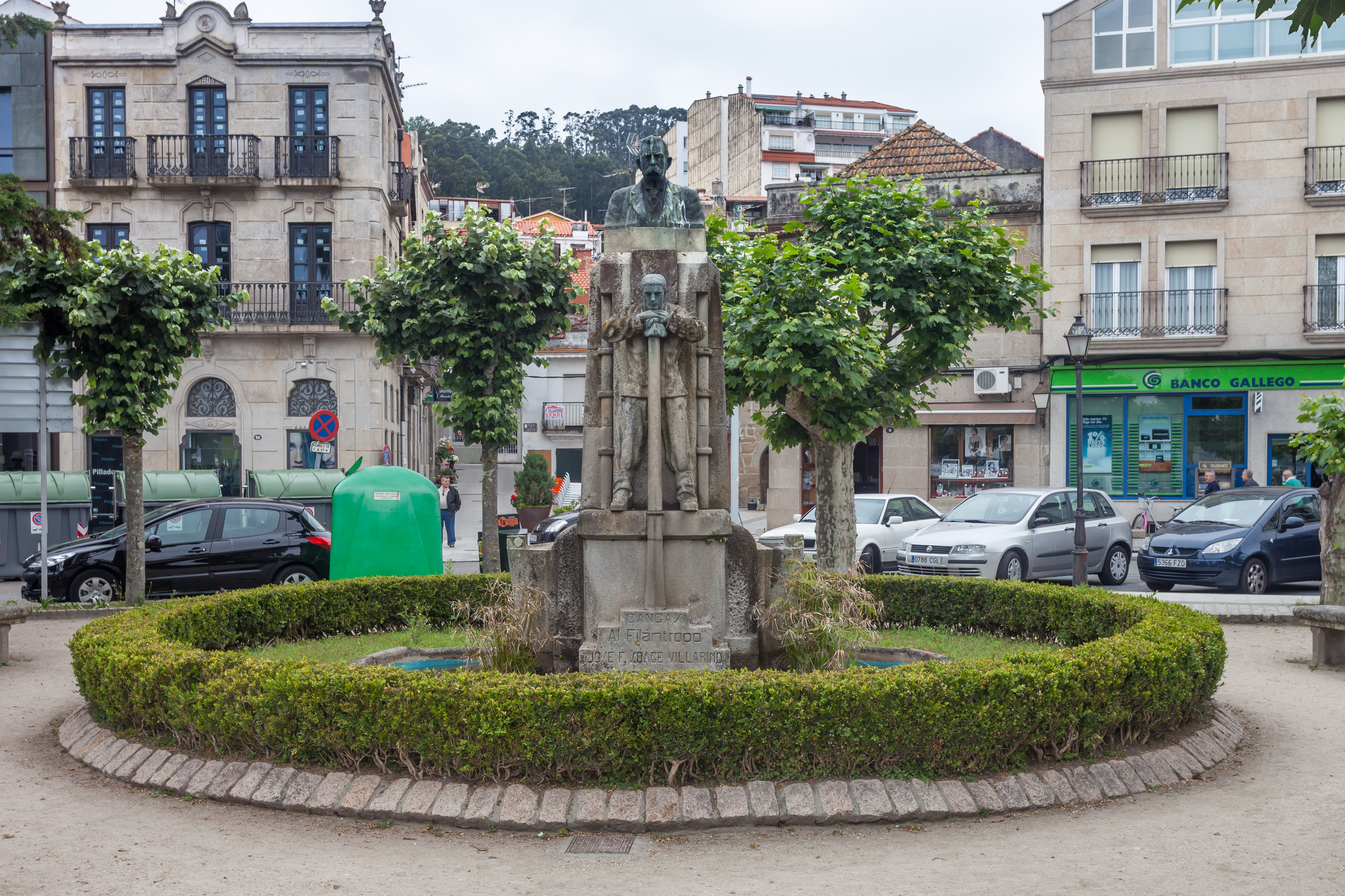 Sculpture of Soage Villarino by Francisco Asorey, Cangas, Galicia (Spain)